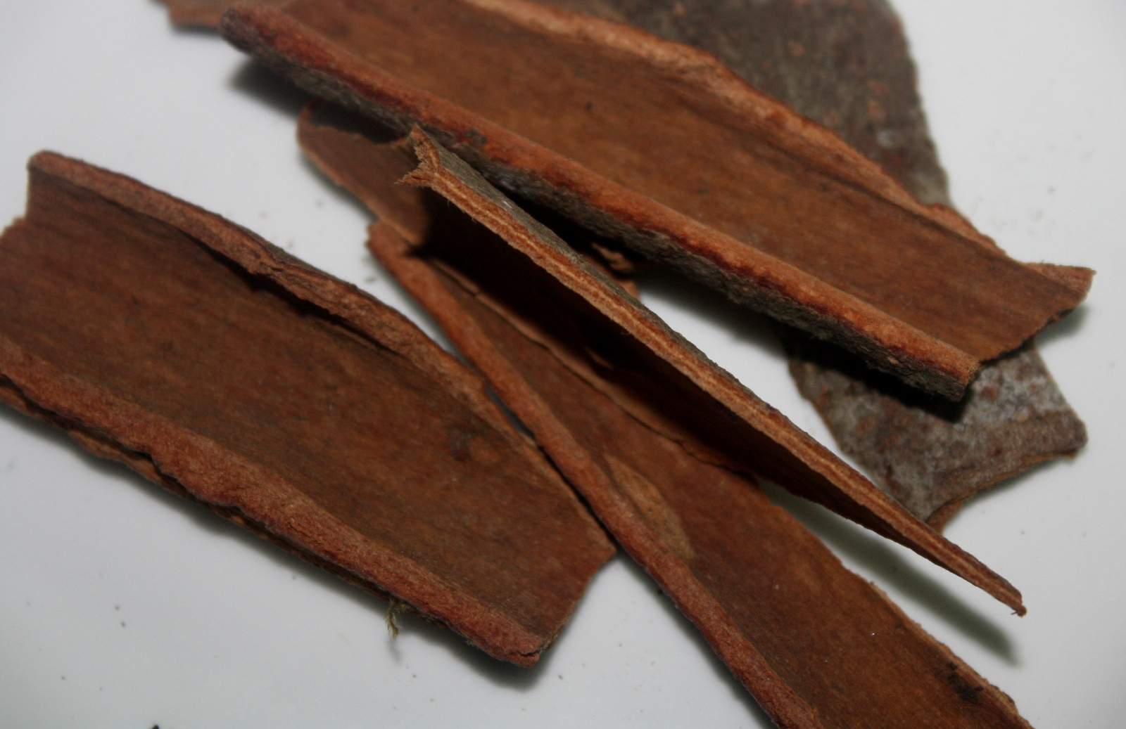 Cinnamomum verum found in Latpanchar market,Mahananda Wildlife Sanctuary, West Bengal,India